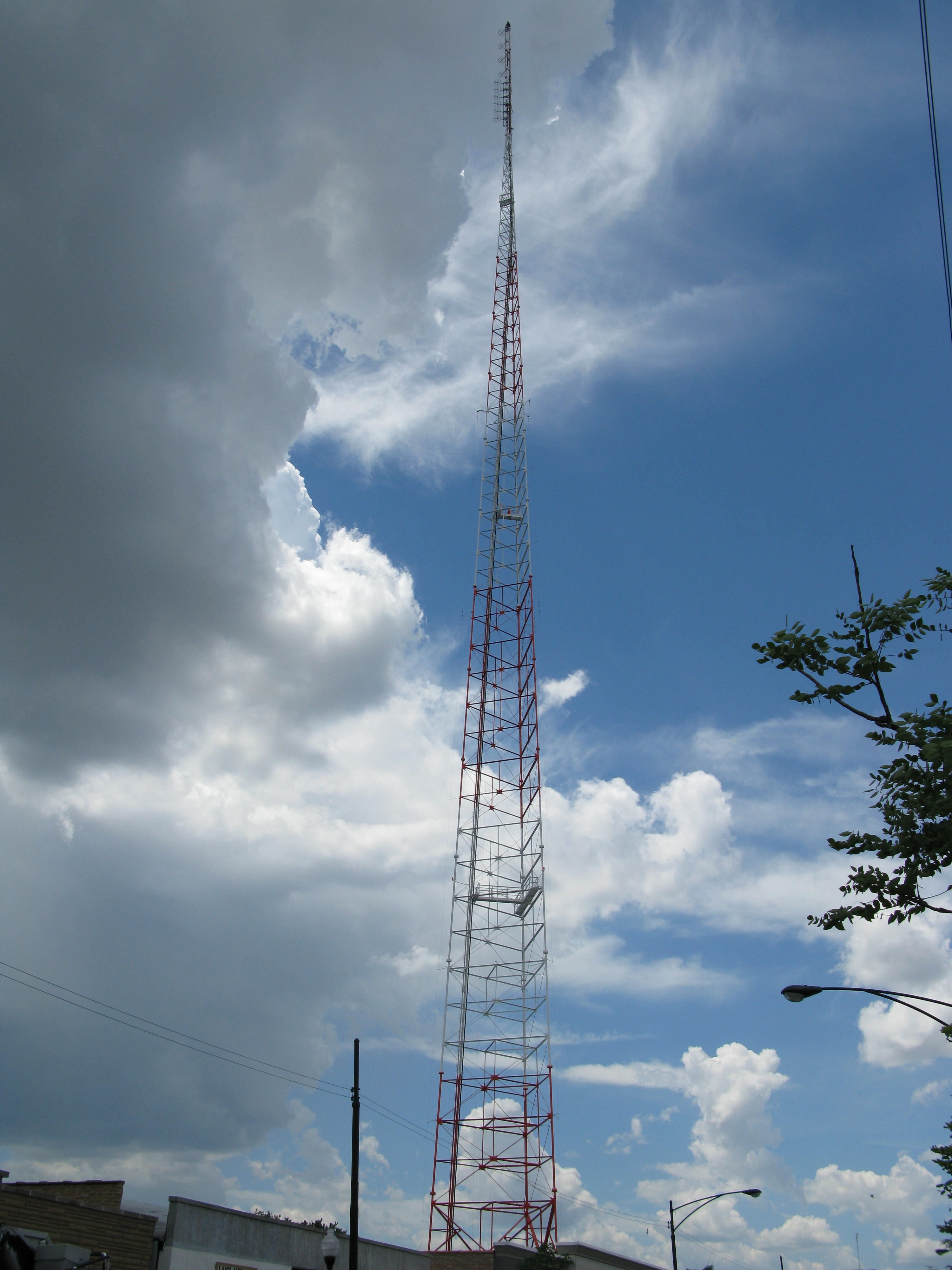 WSBC (former WEDC/WCRC) Radio Tower 4949 W Belmont ave, Chicago IL